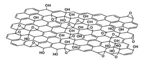 Single sheet in the GO crystal lattice. Several oxygen containing functional groups are shown. Absolute and relative number of functional groups depends on the particular synthesis method.